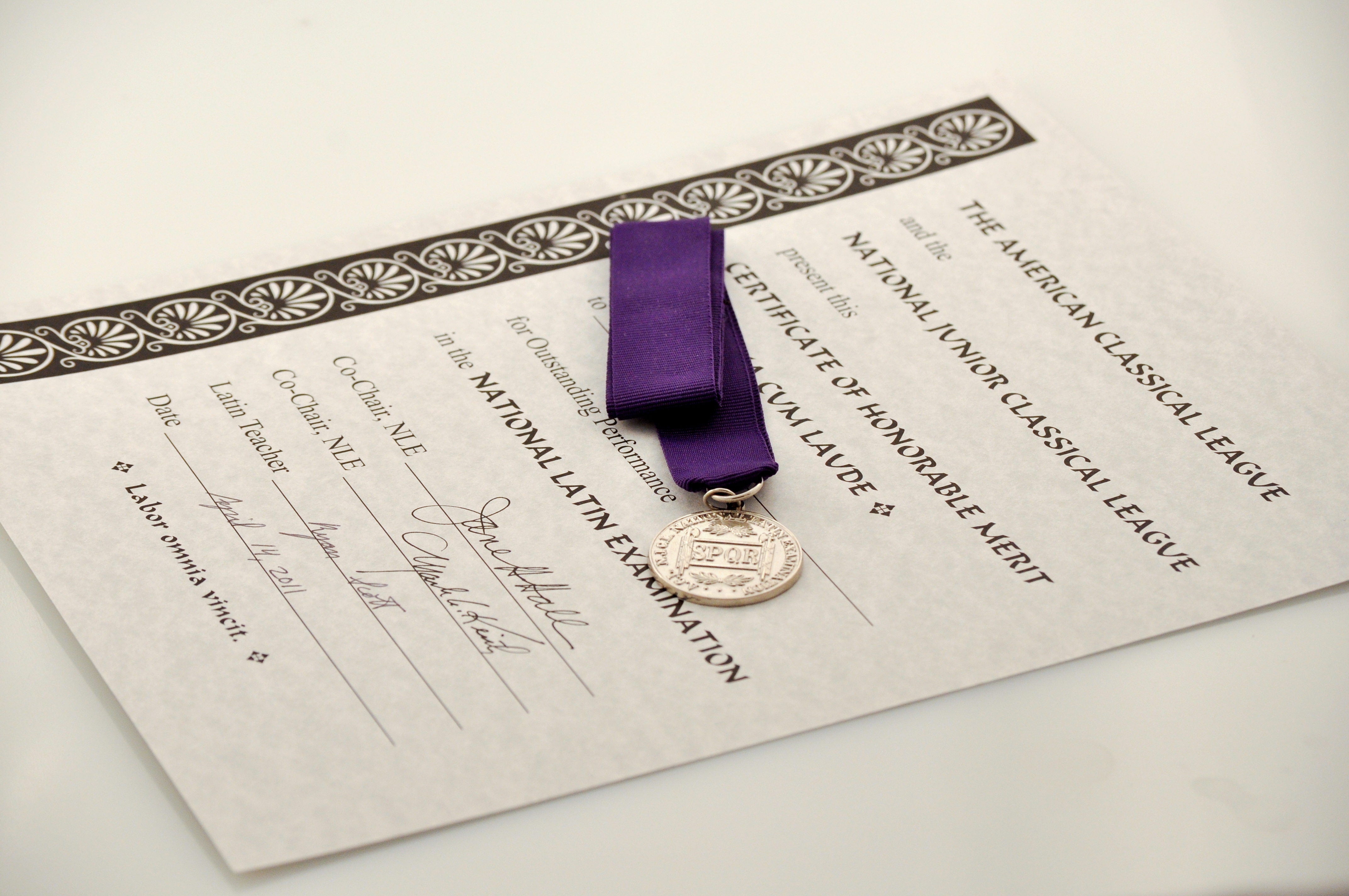 This is an image of the National Latin Exam silver awards.